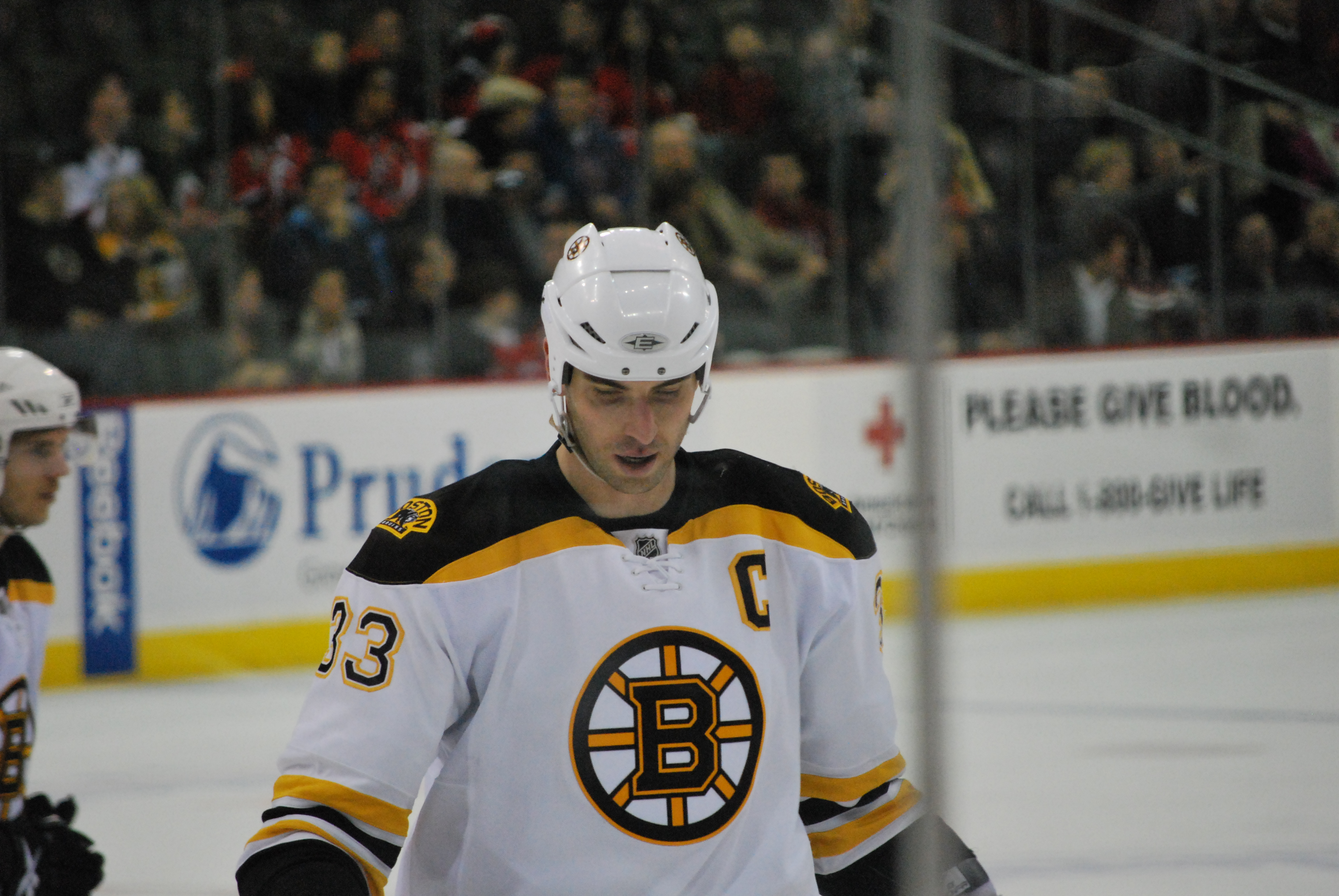 Bruins vs. Devils 2/13/09 Prudential Center, Newark, NJ Zdeno Chára is a Slovakian professional ice hockey defenceman and team captain of the Boston Bruins of the National Hockey League (NHL).